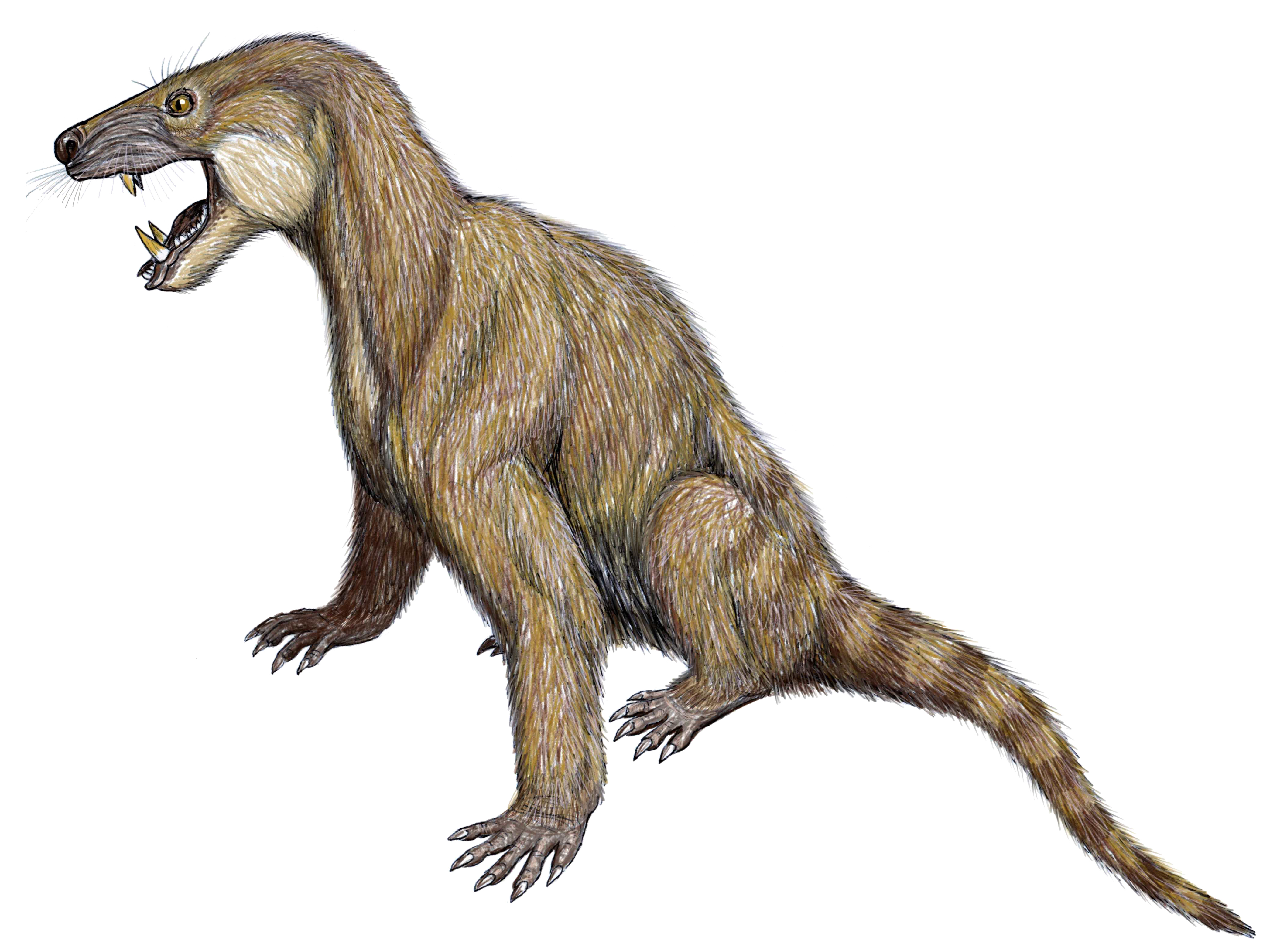 Trucidocynodon riograndensis from Late Triassic of southern Brazil